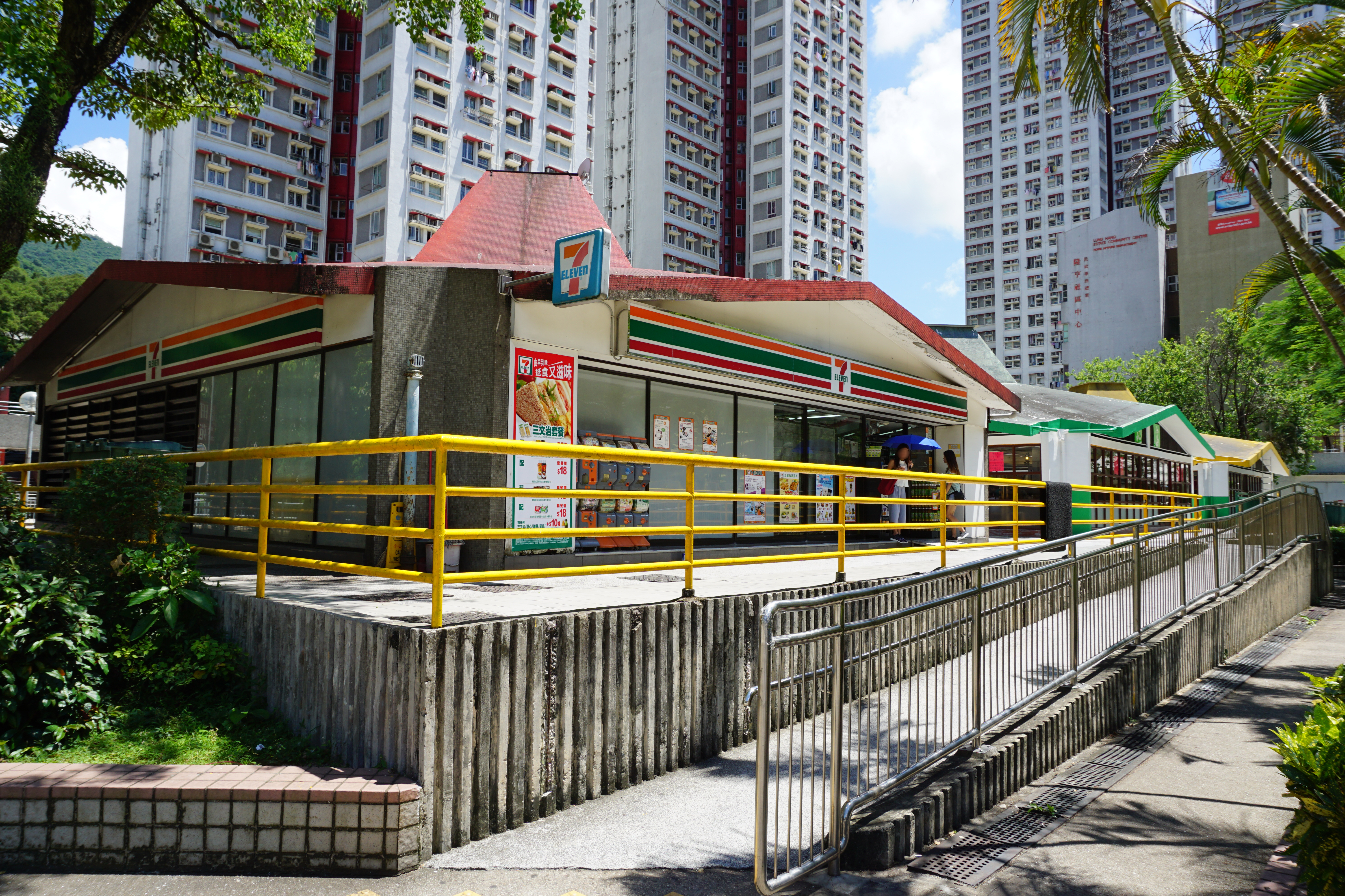 Lung Hang Estate in Tai Wai, Hong Kong.